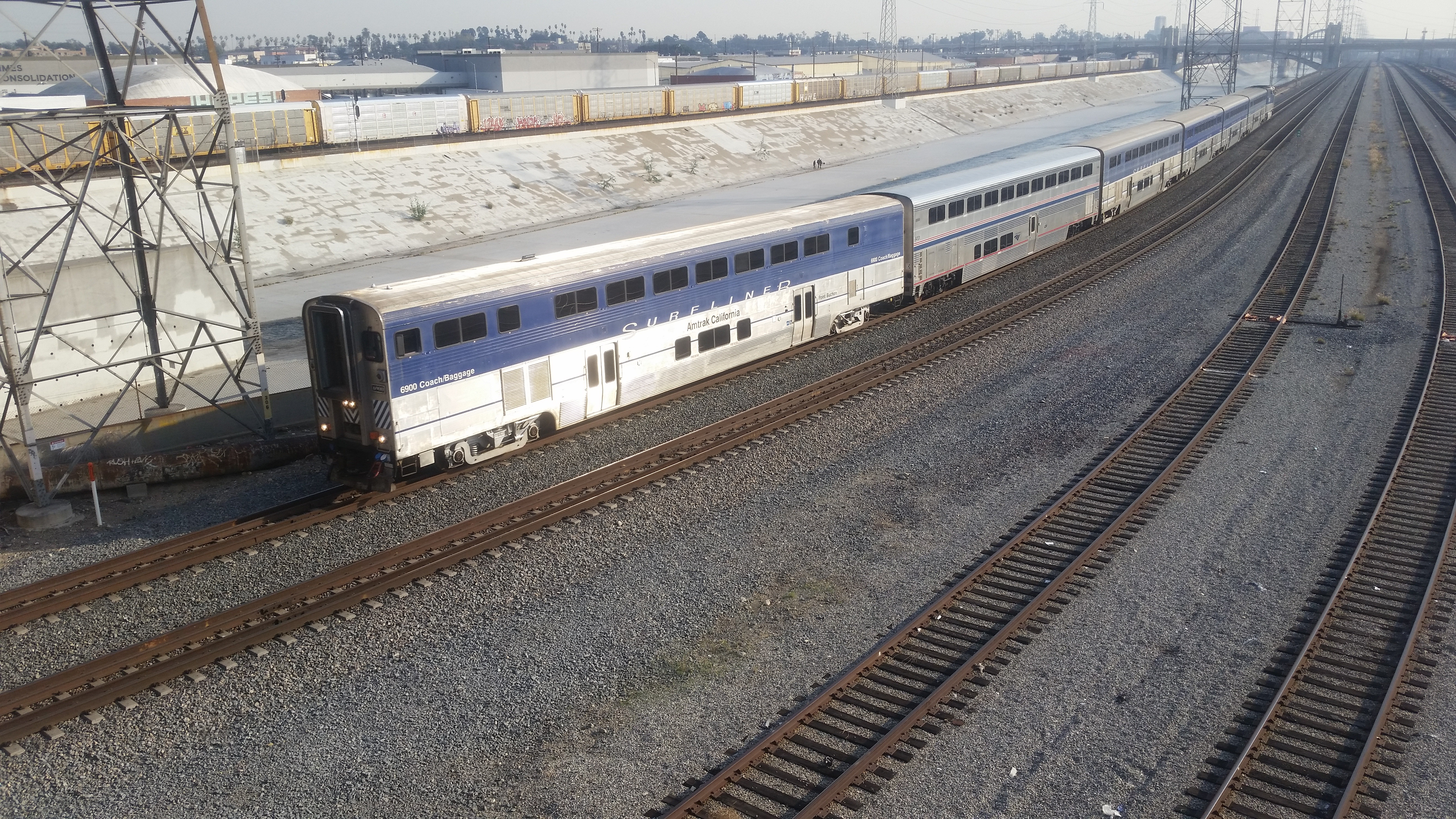 A Pacific Surfliner pushing toward Union Station. Note the Superliner car second from rear.